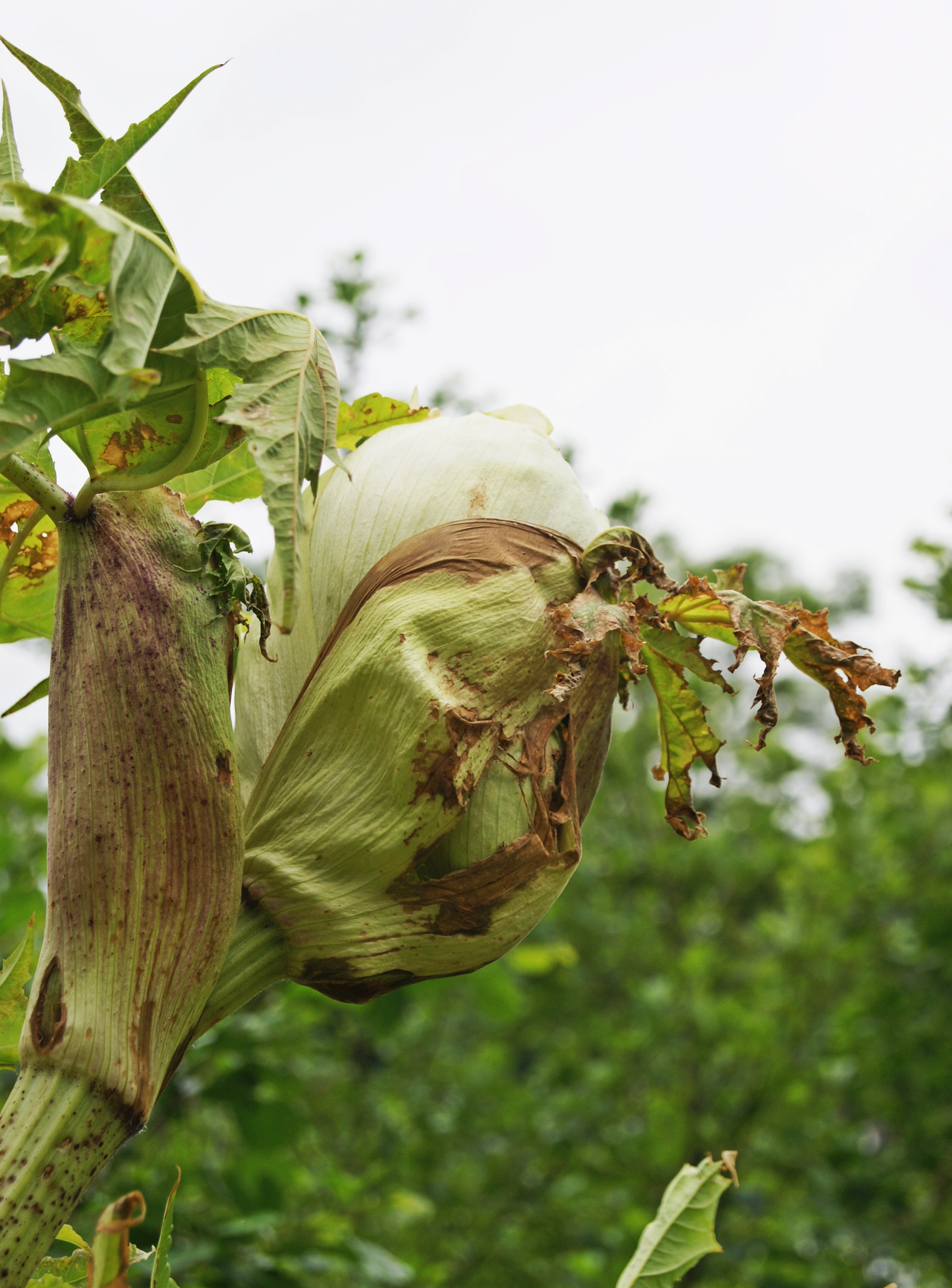 Heracleum mantegazzianum, 57258 Freudenberg, Germany.